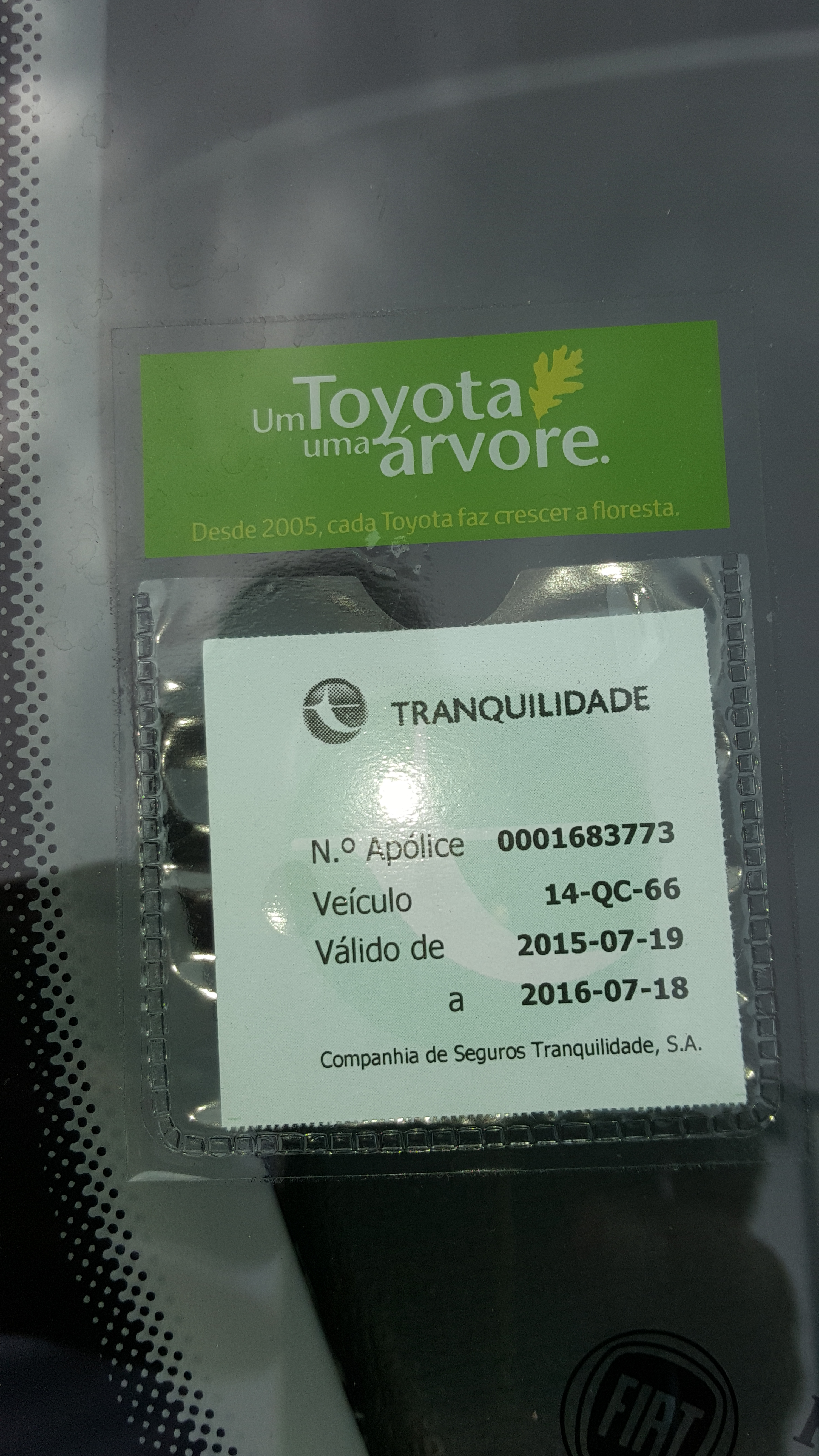 Car insurance sticker